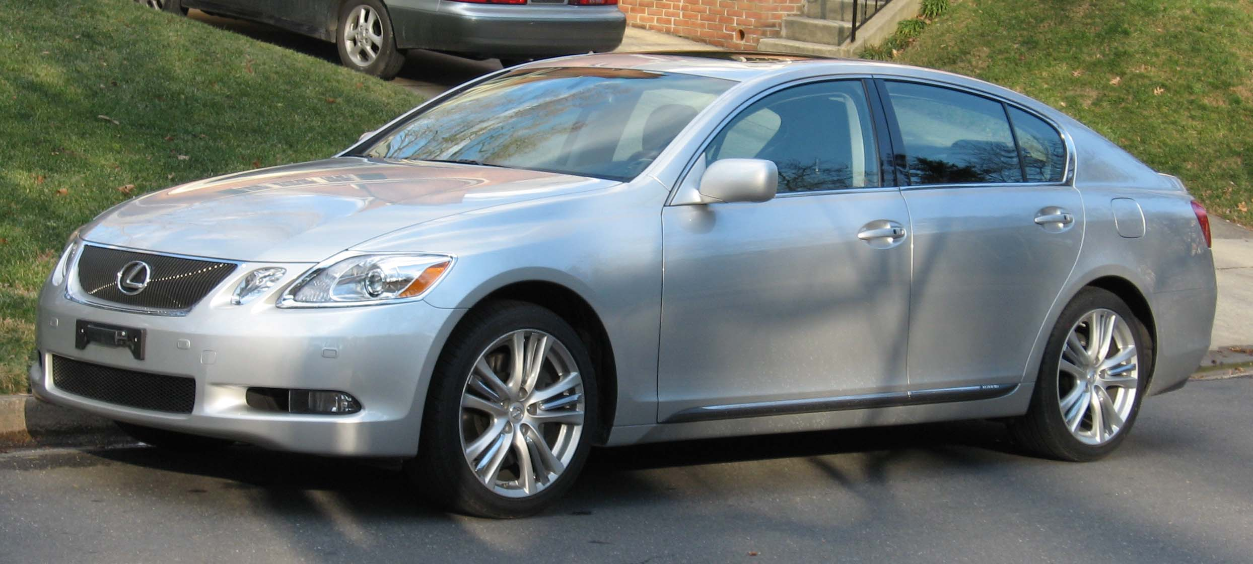 2007 Lexus GS450H photographed in USA.